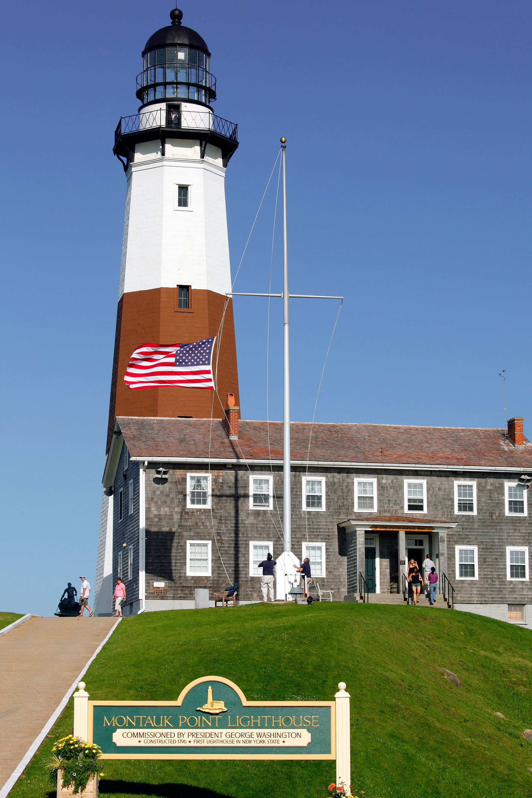 Flag at the lighthouse at Montauk Point, Long Island, NY